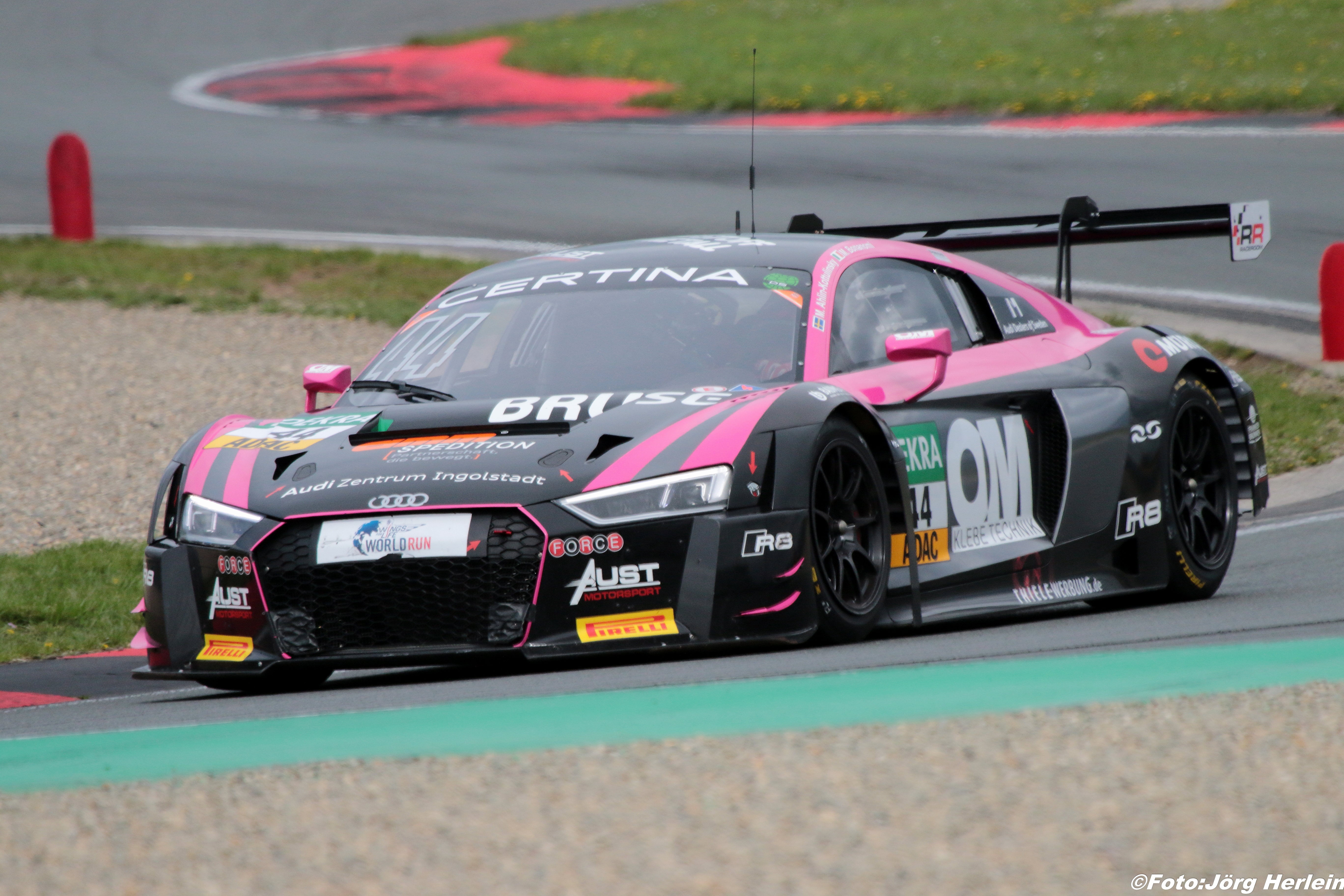 Mikaela Åhlin-Kottulinsky Audi R8 LMS